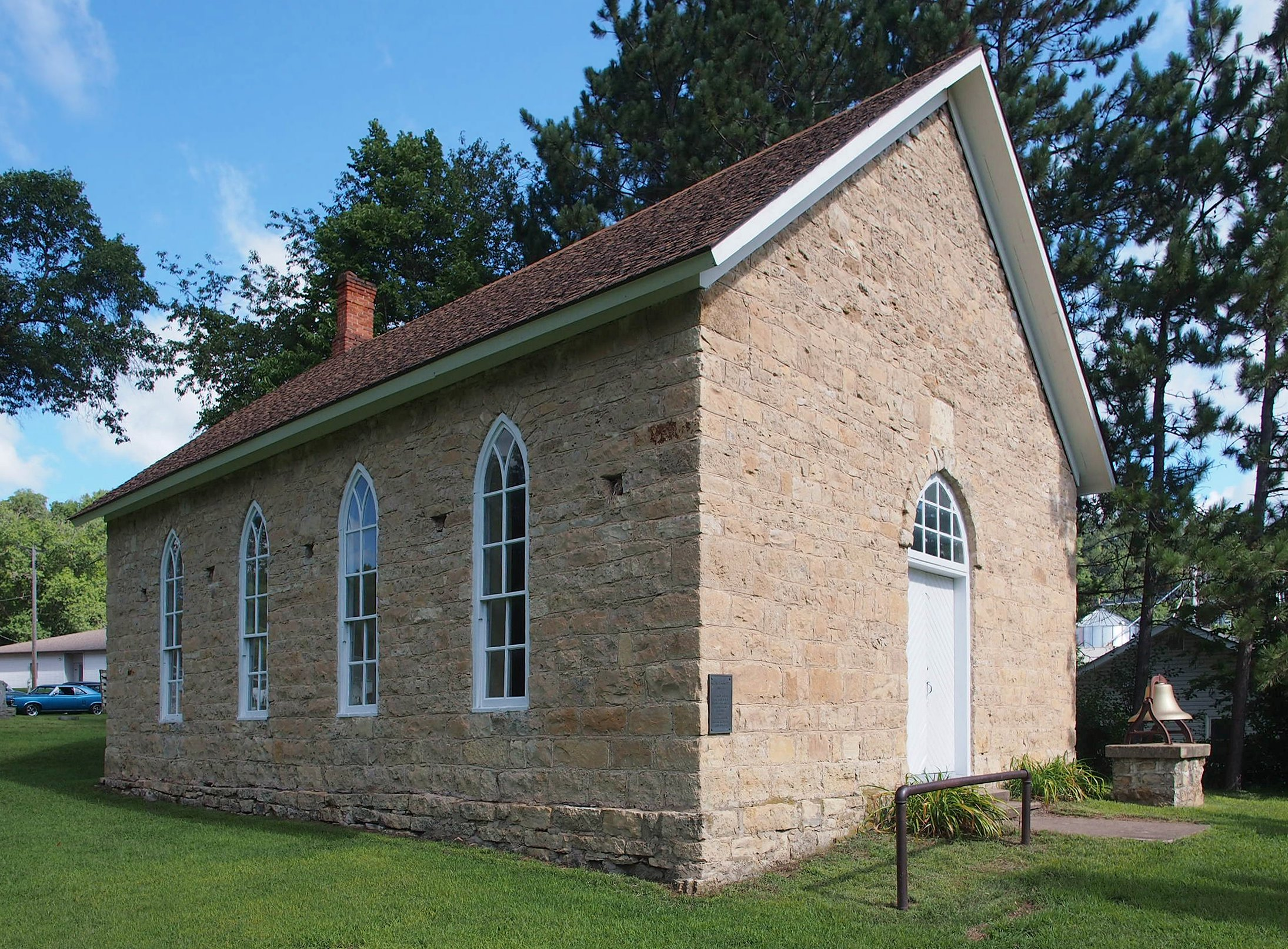 Swedish Evangelical Lutheran Church, Millville, Minnesota, USA. Viewed from the south.